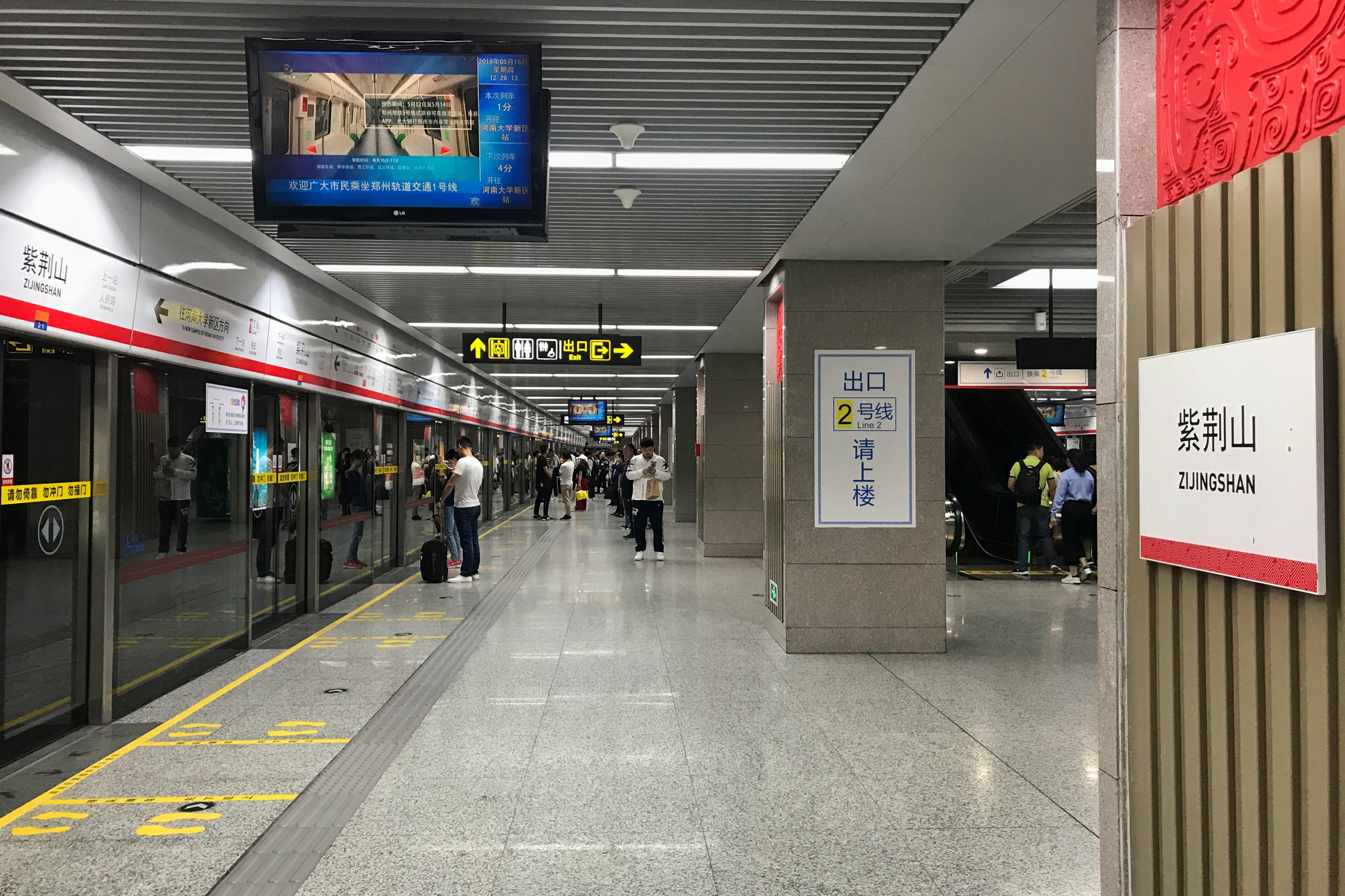 Platform of Line 1 at Zijingshan Station